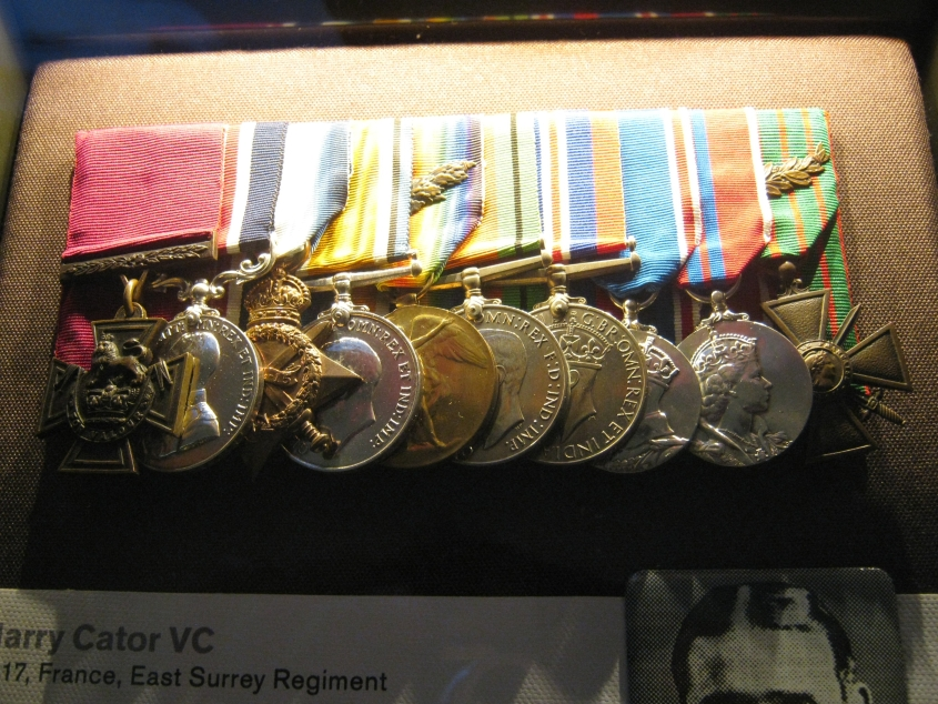 Photo taken in the Ashcroft Gallery of the medals earned by Harry Cator in World War One. Left to right: Victoria Cross, Military Medal, 1914-15 Star, British War Medal, Victory Medal (with Mentioned in Dispatches insignia), Defence Medal, 1939-45 War Medal, King George VI Coronation Medal, Queen Elizabeth II Coronation Medal, Croix du Guerre with palm